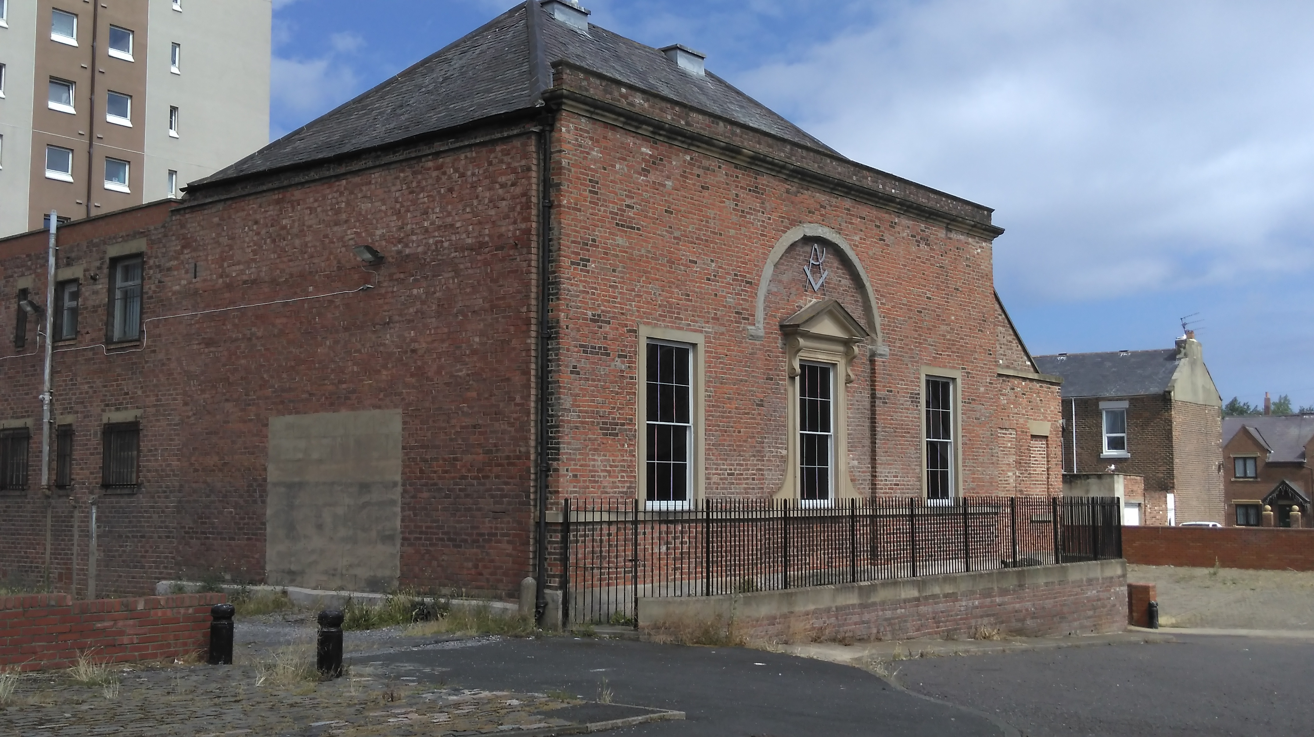 Phoenix Lodge (freemason's Hall) built 1785, oldest Lodge in continuous use, sited in Queen Street East, Sunderland